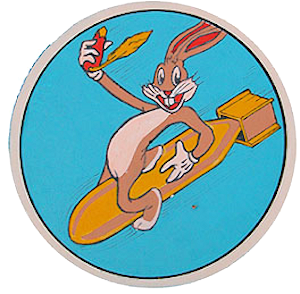 Emblem of the 530th Bombardment Squadron